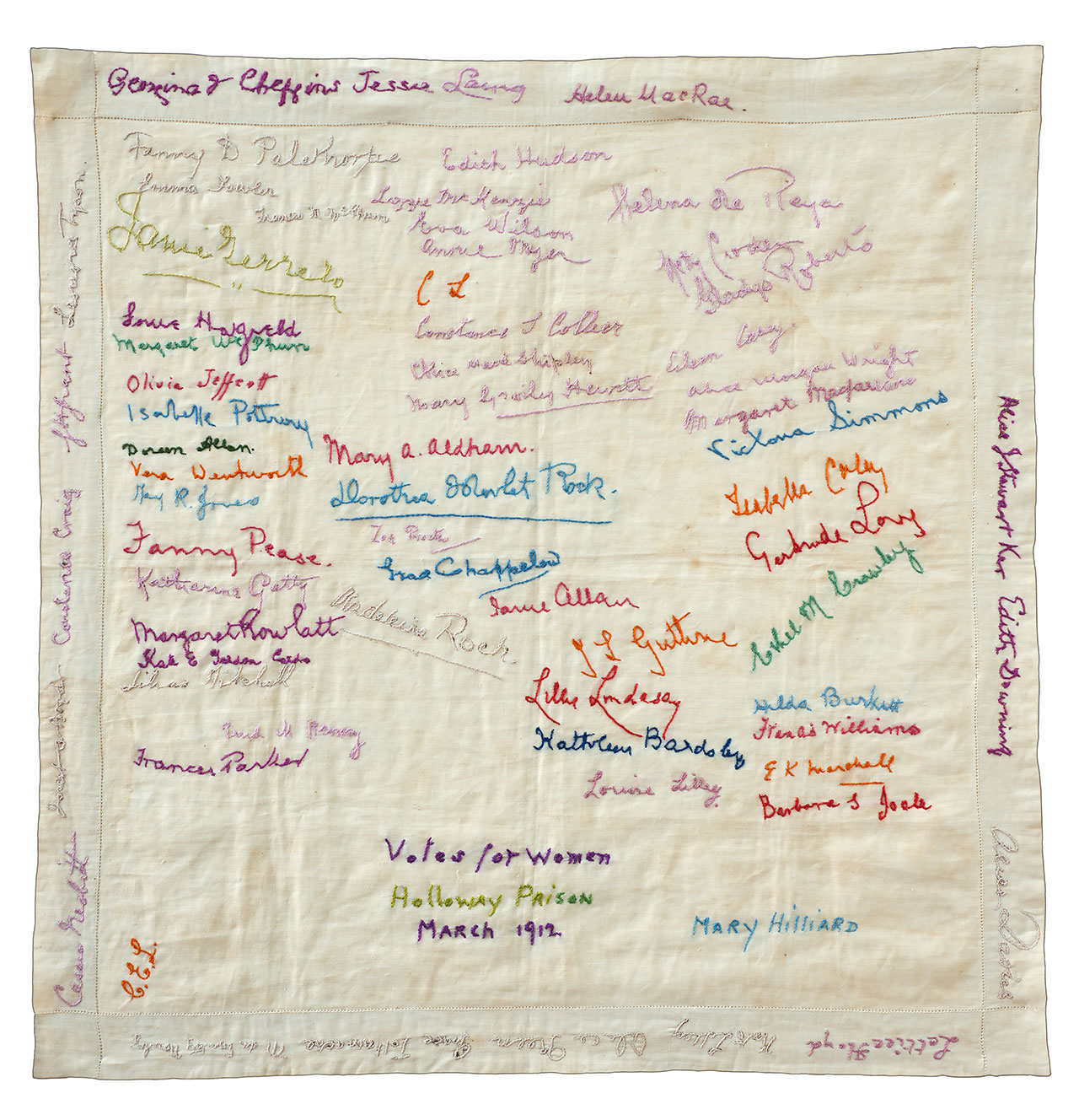 at The Priest House, West Hoathly which has sixty-six embroidered signatures and two sets of initials, mostly of women imprisoned in HMP Holloway for their part in the Women's Social and Political Union Suffragette window smashing demonstrations of March 1912.